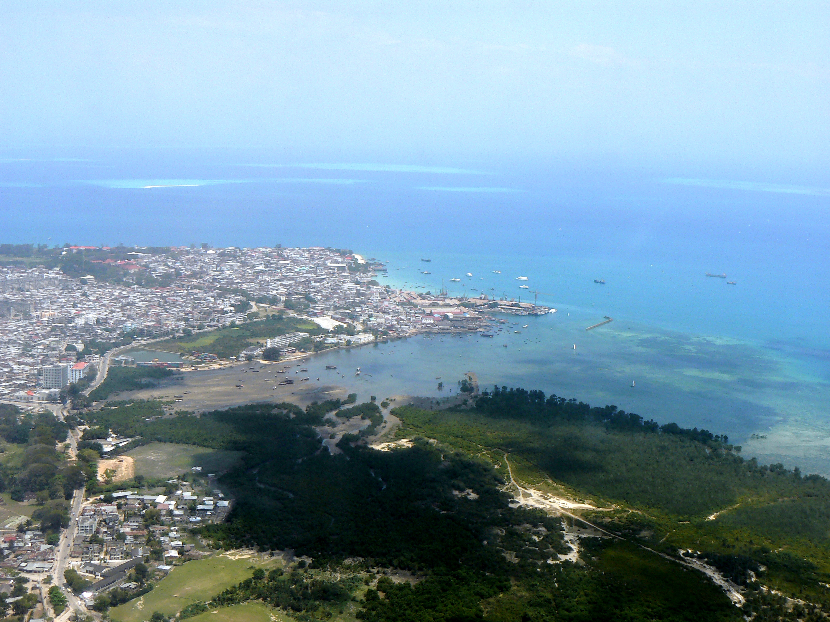 Zanzibar Island — off east coast of Tanzania.